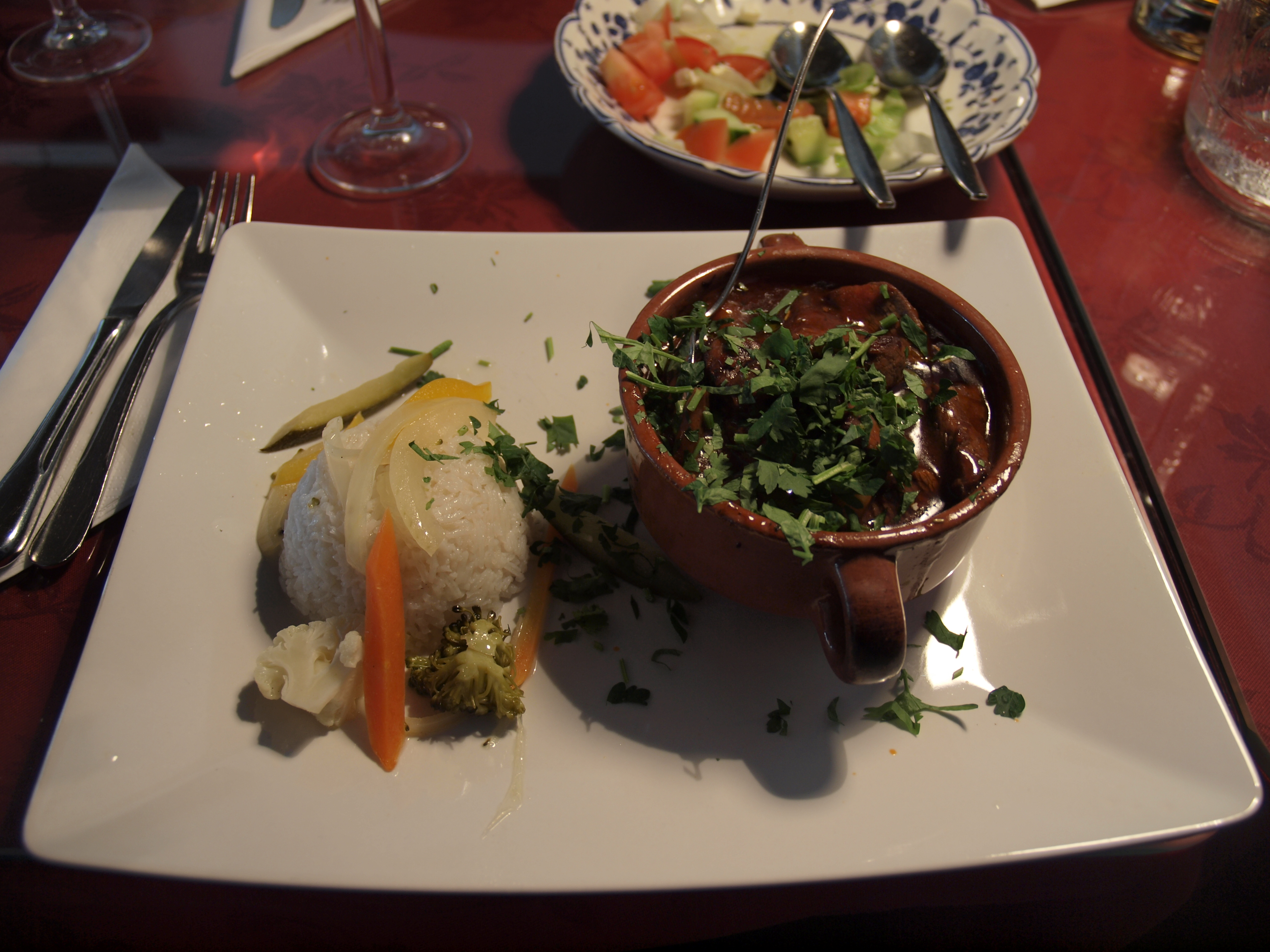 A plate of Kuzu Güveç (lamb cooked in casserole) at restaurant Kilim, Tapiola, Espoo, Finland.